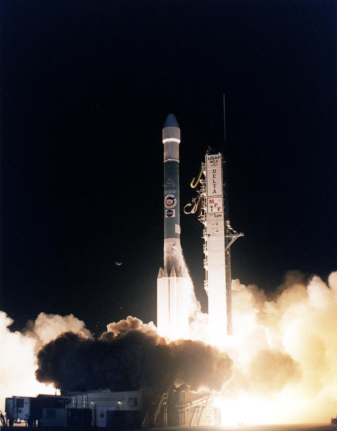 Mars Pathfinder was launched on a Delta Launch Vehicle at 1:56 am on 4 December 1996 from Cape Canaveral Spaceflight Center.